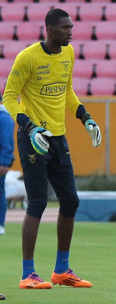 Alexander Domínguez Carabalí